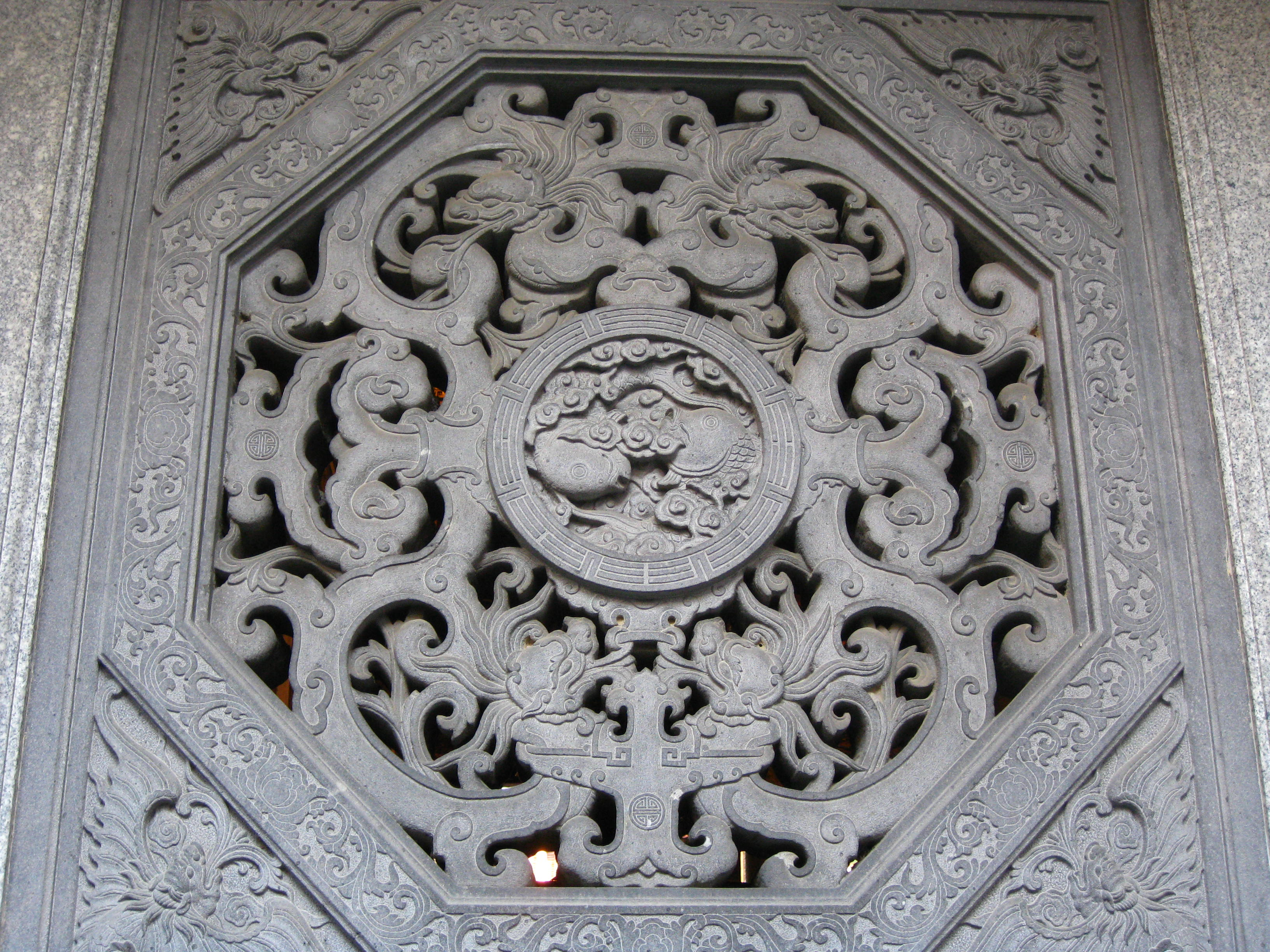 Window Detail of Zushih Temple, Sansia, Taipei County, Taiwan